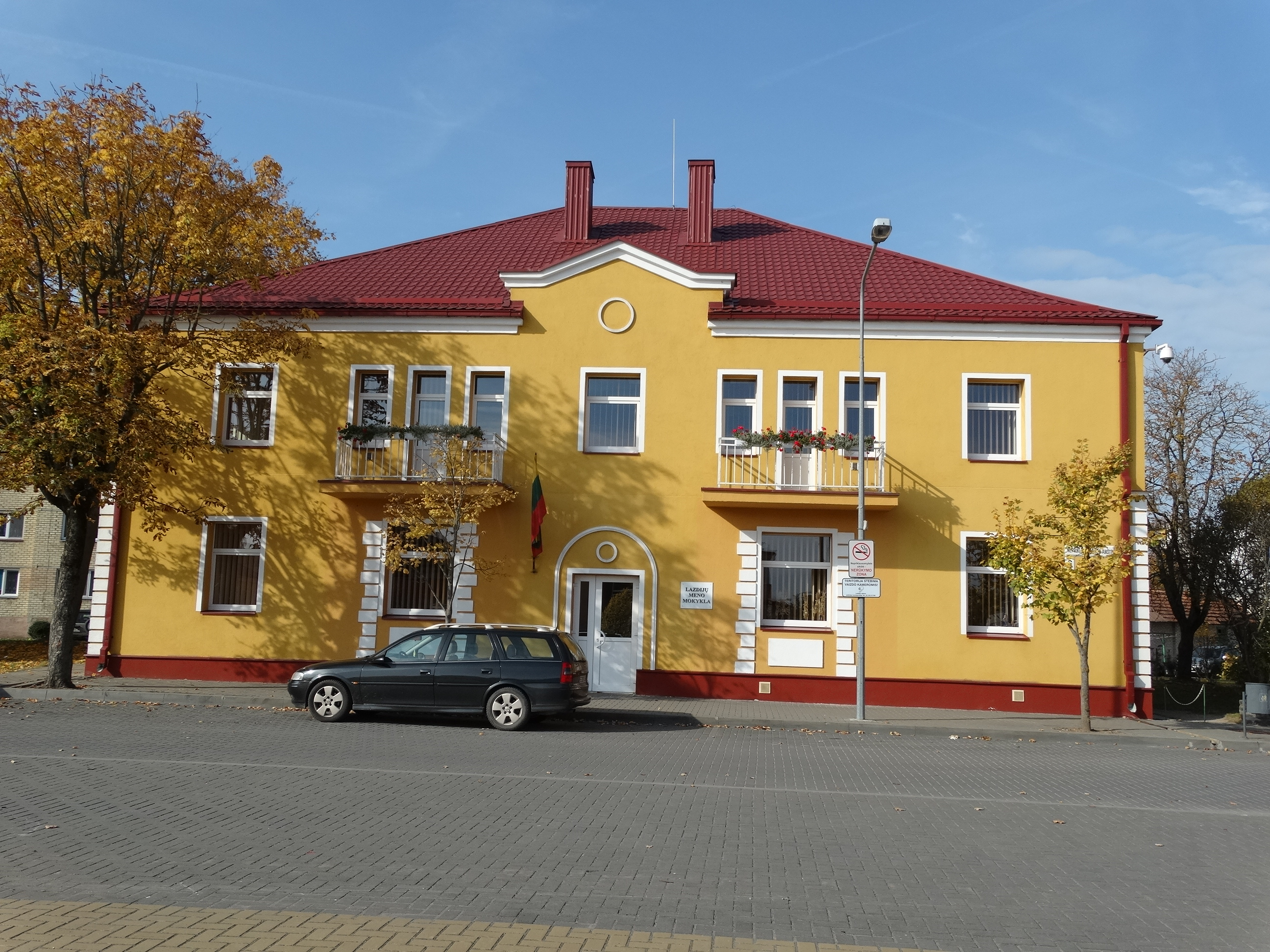 Arts school, Lazdijai, Lithuania